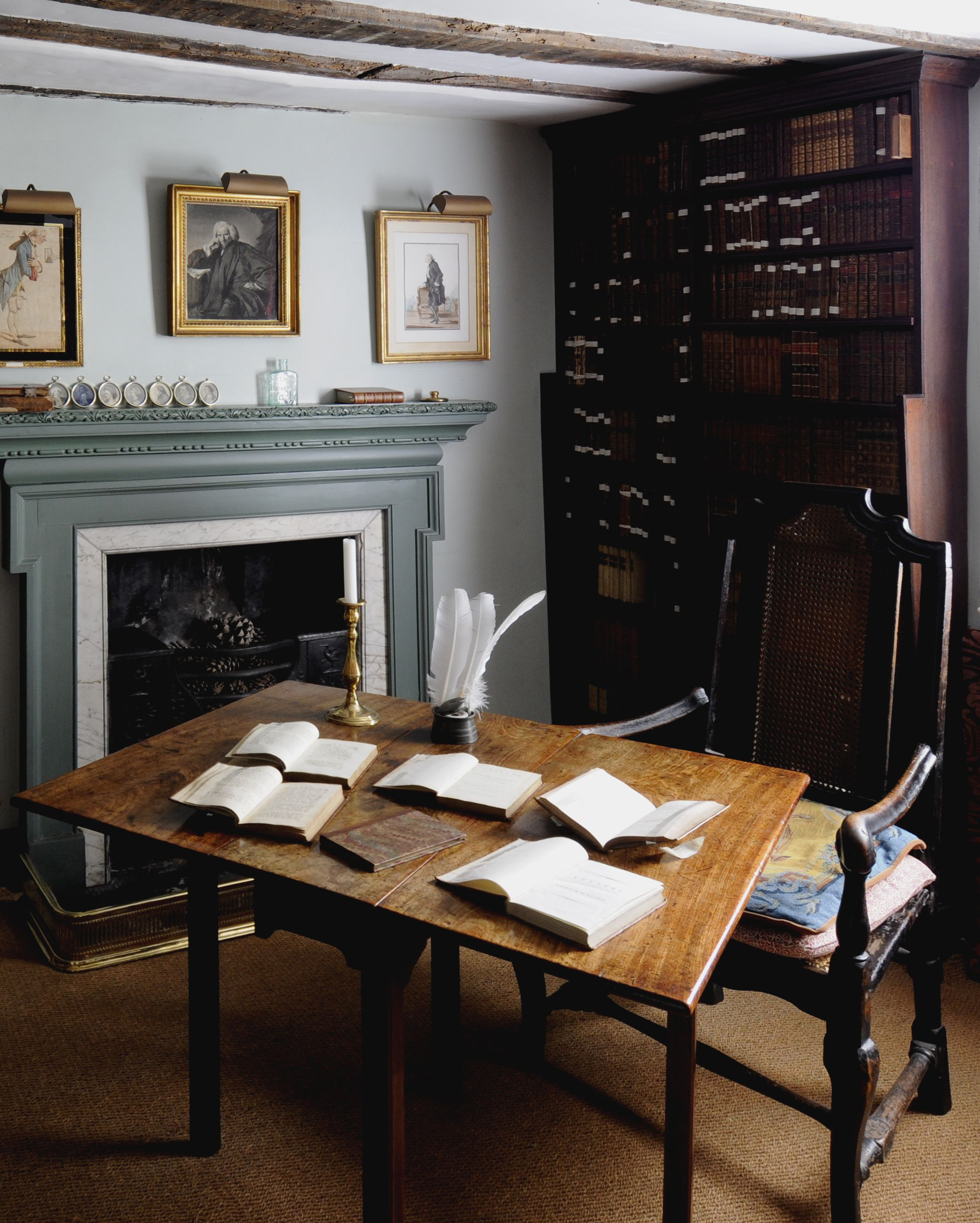 Laurence Sterne's study at Shandy Hall. The room has been restored to the aesthetic and furnishings of the time and contains the largest library of Sterne first editions in the world with several notable copies of The Life and Opinons of Tristram Shandy and A Sentimental Journey through France and Italy. Above the mantelpiece is an engraved version of Joshua Reynolds portrait of Sterne.